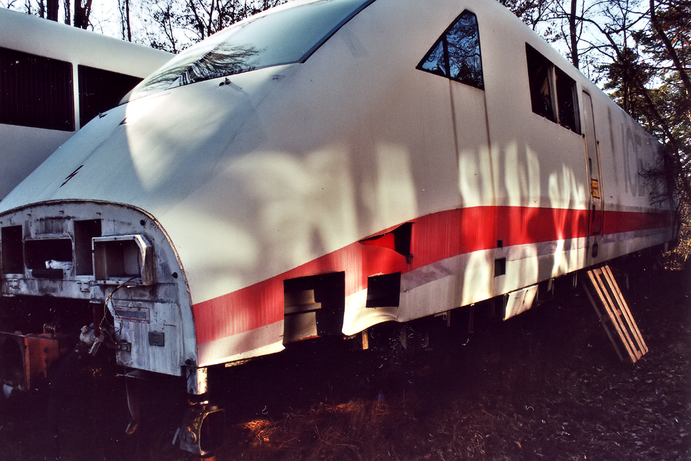 The ICE power head 401 551. This locomotive pushed the ICE that was mostly destroyed in the Eschede train disaster. This picture was taken on the grounds of the repair center Nuremberg.